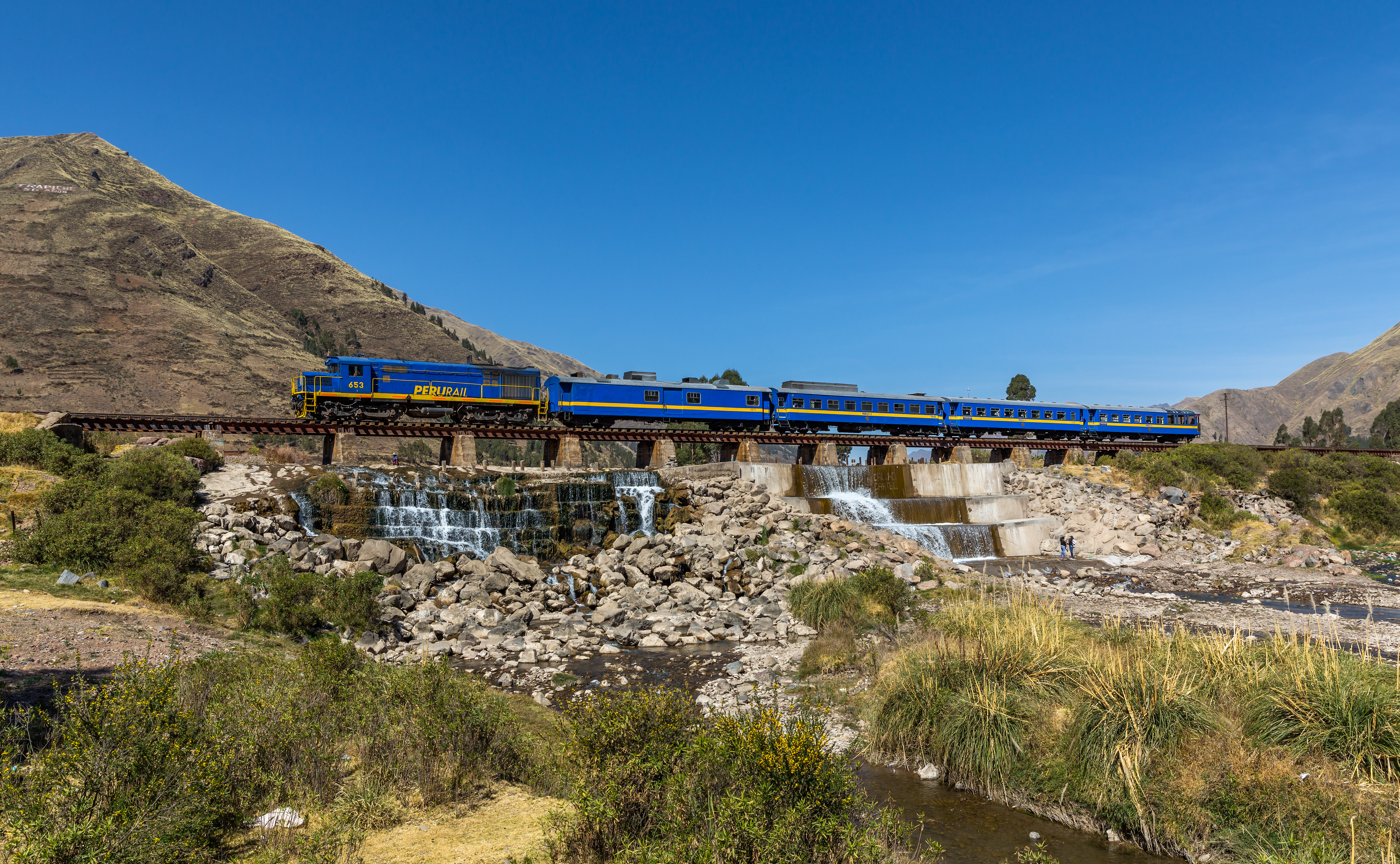 PeruRail's MLW DL560D 653 hauls train 19 Puno - Cusco across the Urubamba river near Sicuani, Peru.